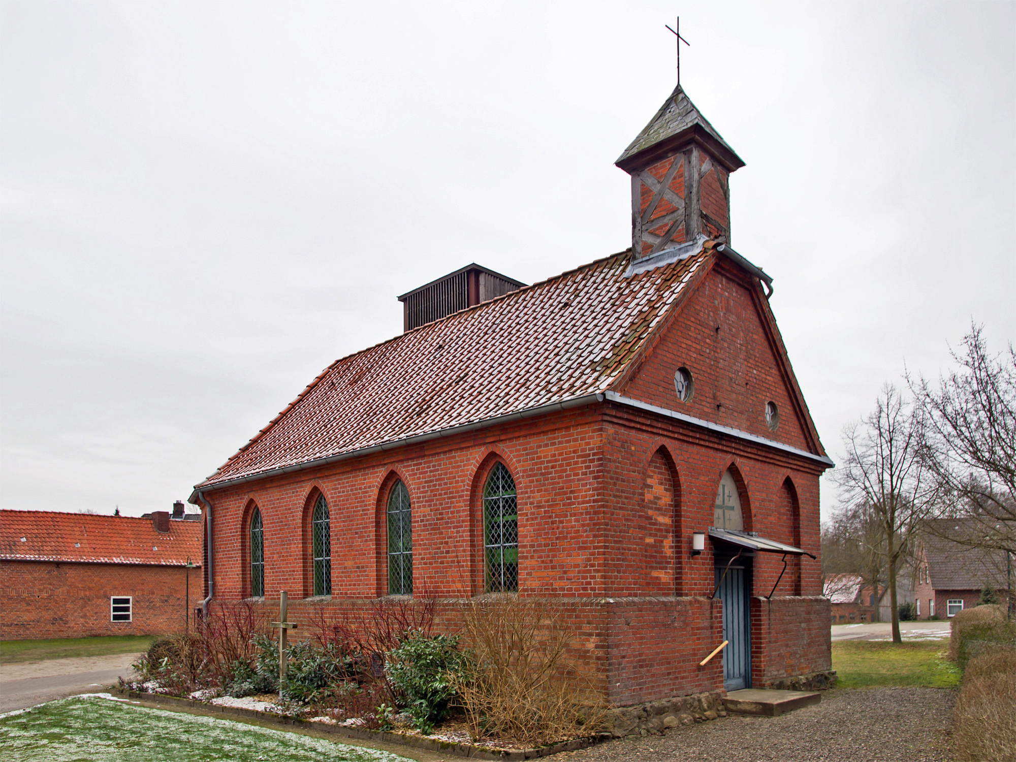 Chapel of the small village Lenzen (district Lüchow-Dannenberg, northern Germany).